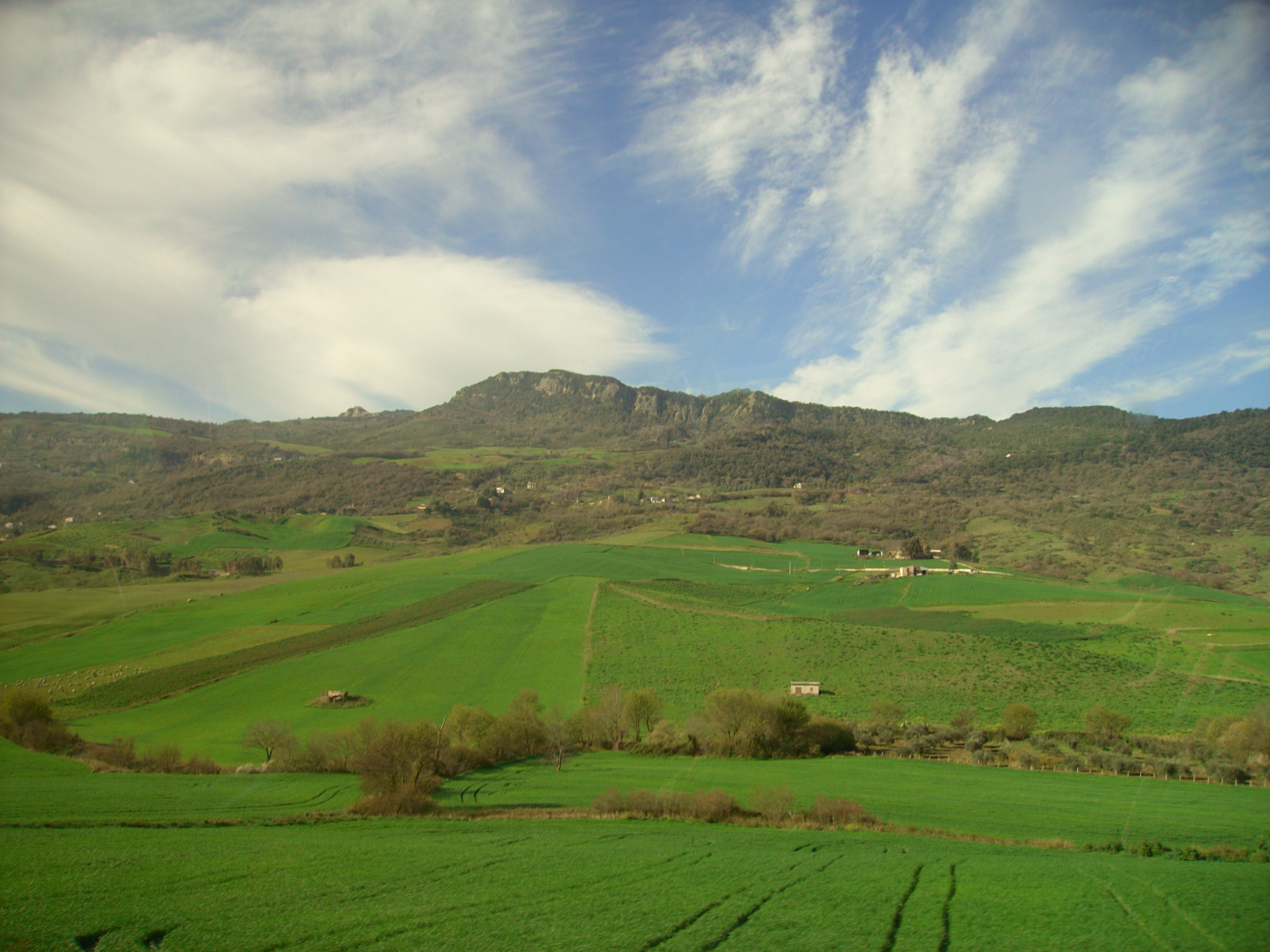 Sicily typical landscape